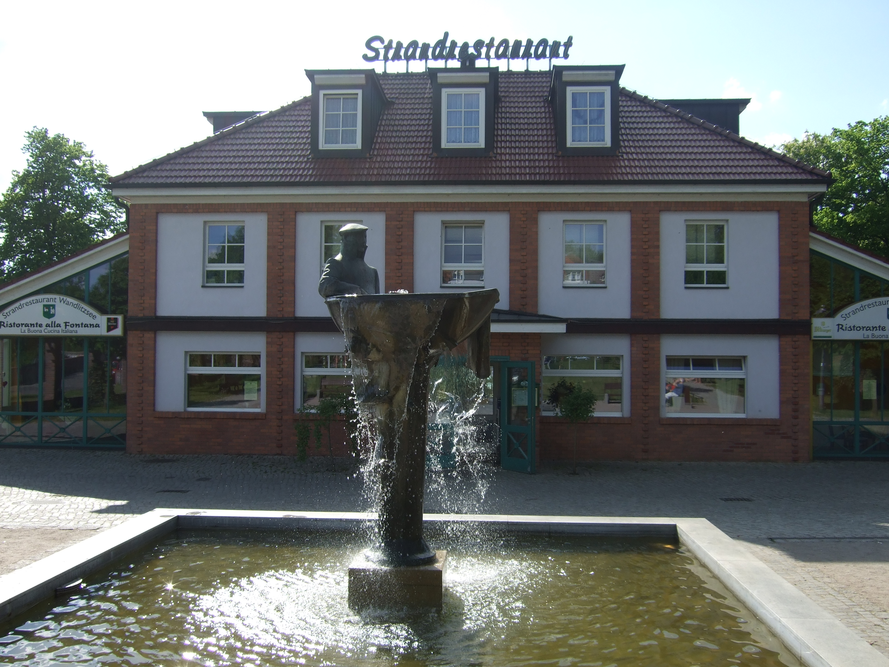 Fountain "Fischerbunnen" (engl. "Fishermans fountain") in front of the "Strandrestaurant" (engl. "Beach Restaurant") in Wandlitz, Brandenburg, Germany.